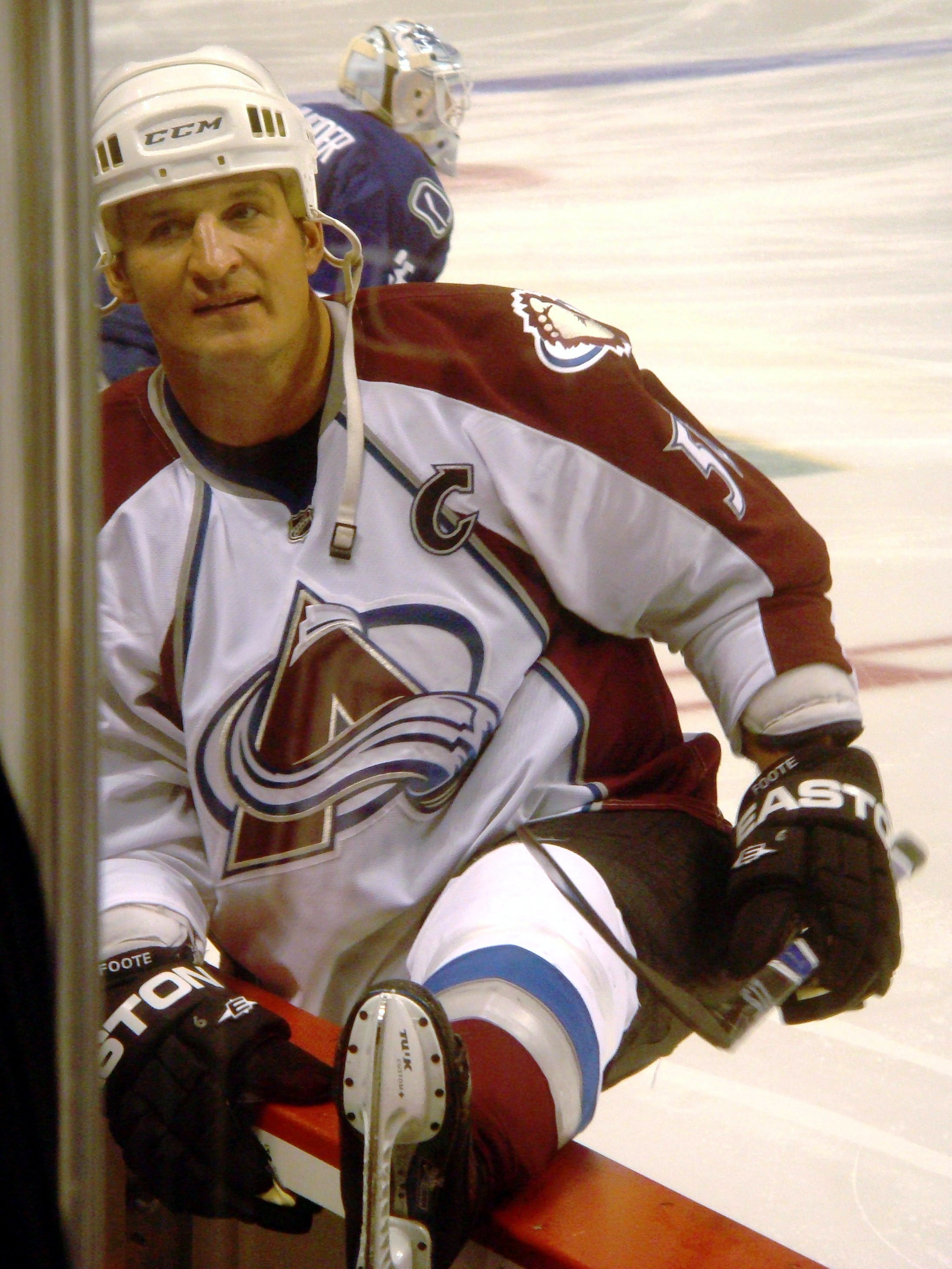 Adam Foote, Col @ Van 1-Nov-09